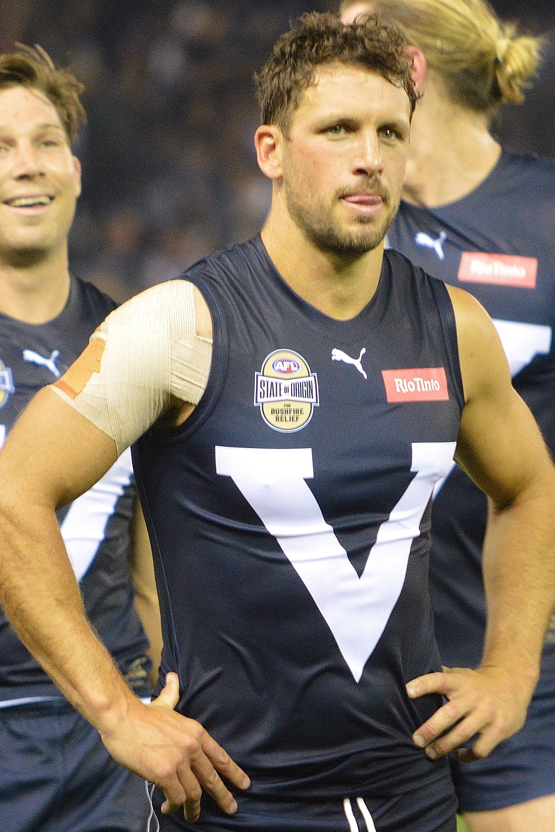 Travis Boak at the AFL State of Origin for Bushfire Relief Match at Marvel Stadium in February 2020.